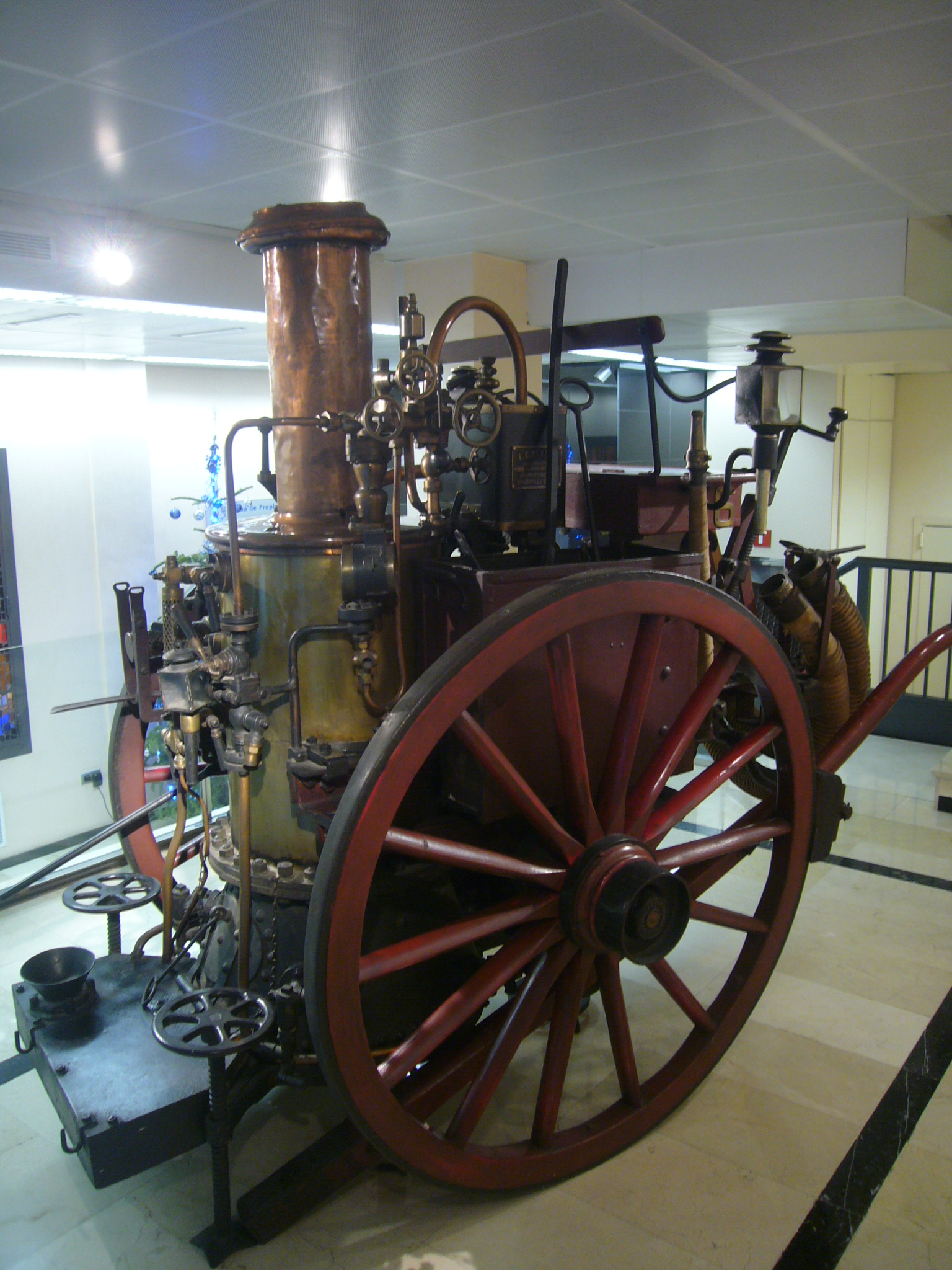 Mutua de Propietarios - (Barcelona) Machine manufactured in 1904 by Flader Feuerlöschgerätefabrik